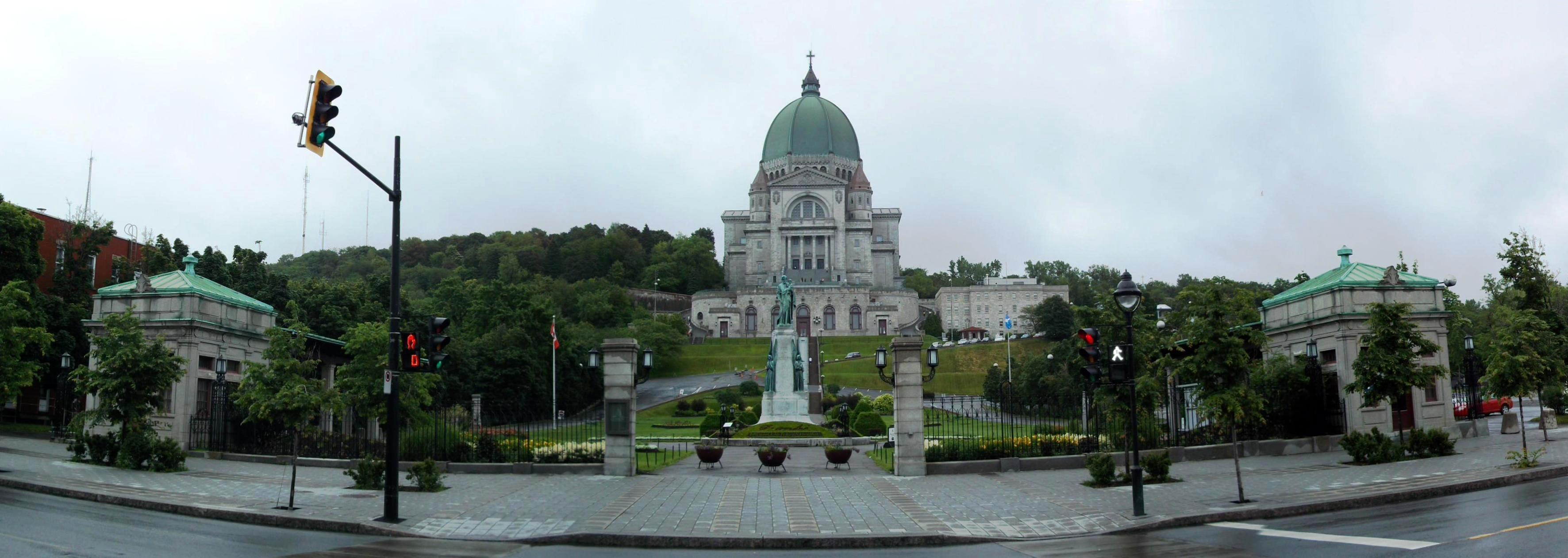 Saint Joseph's Oratory of Mount Royal